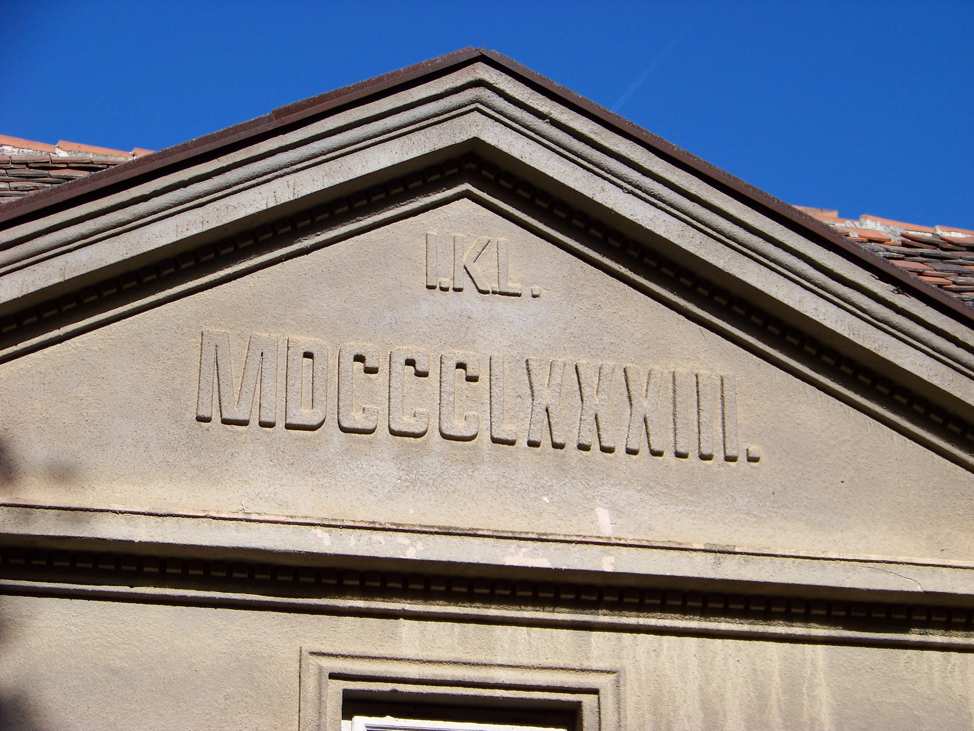 Prague-Jinonice-Butovice, the Czech Republic. Butovická 232/18, year inscription on the house.